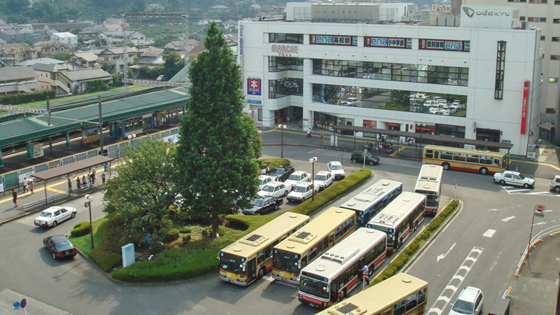 East Rotary of Tsurukawa Station, Odakyu Line